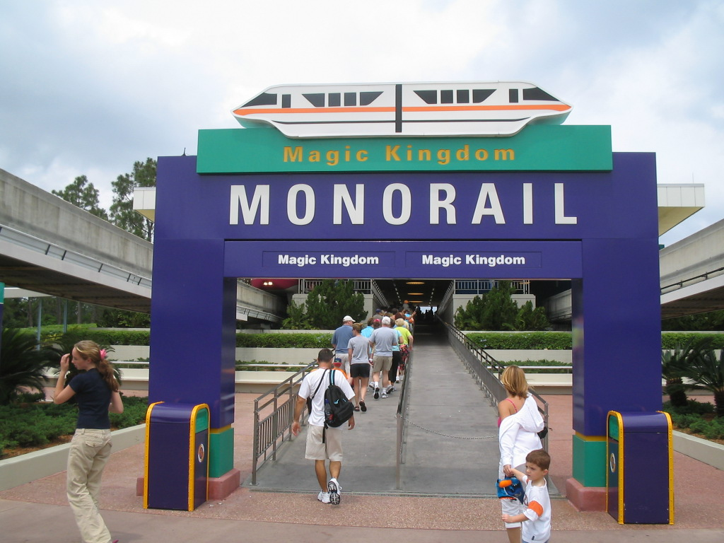 Monorail Disney World, Orlando, May 2005